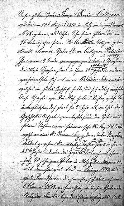 scan of a copy of the first page of the curriculum vitae of francois xavier collignon, hand-written by his wife